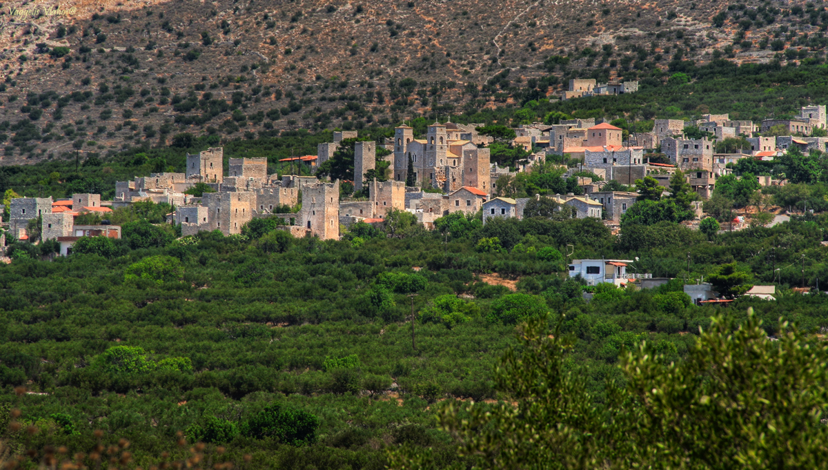 Mani - Hellas